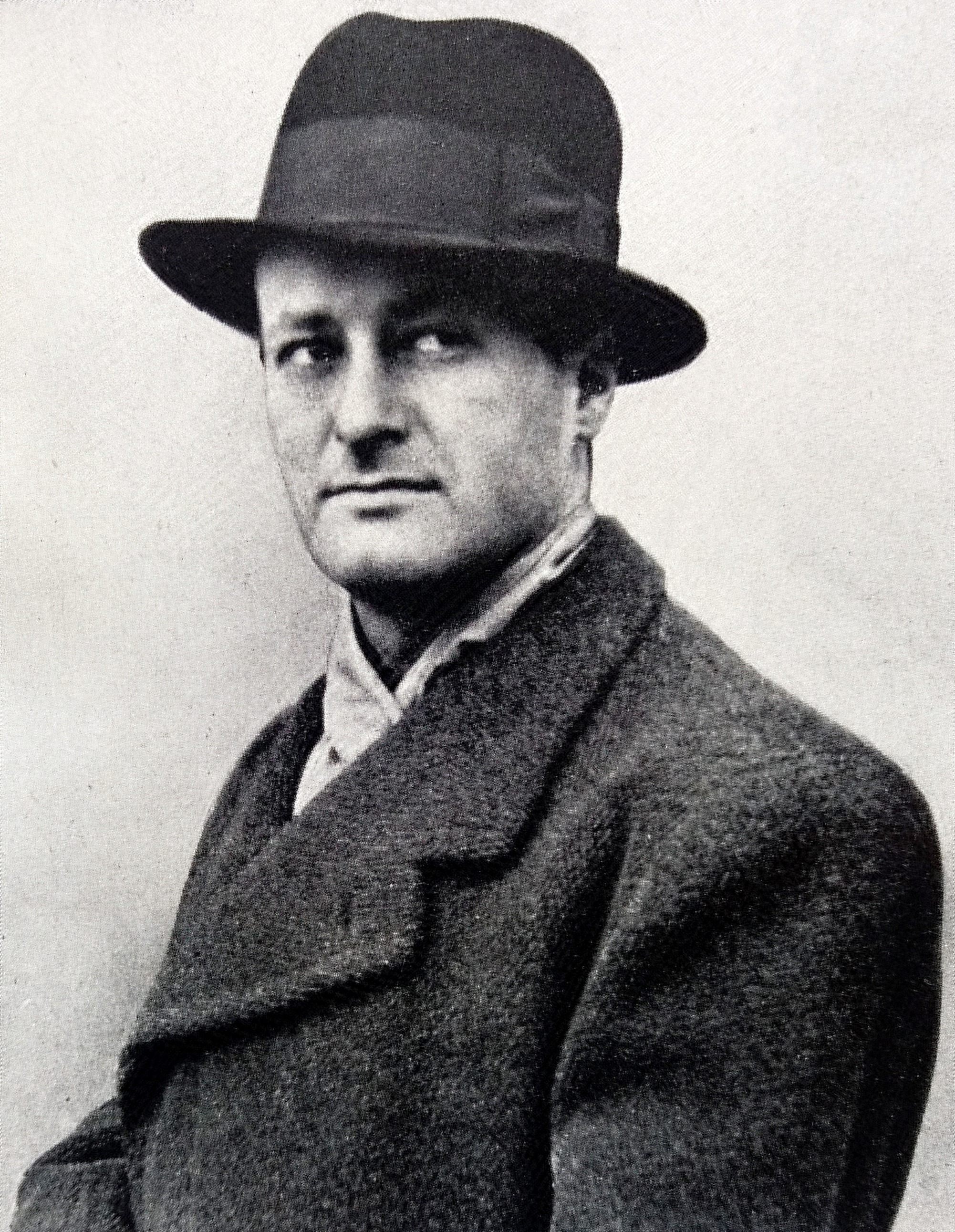 Petr Lotar, Czech actor